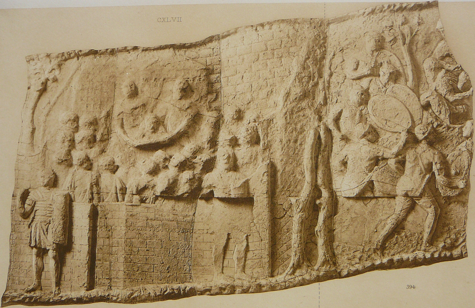 The head of Decebalus displayed to the Roman troops (scene CXLVII); capture of Dacian pileati (scene CXLVIII)